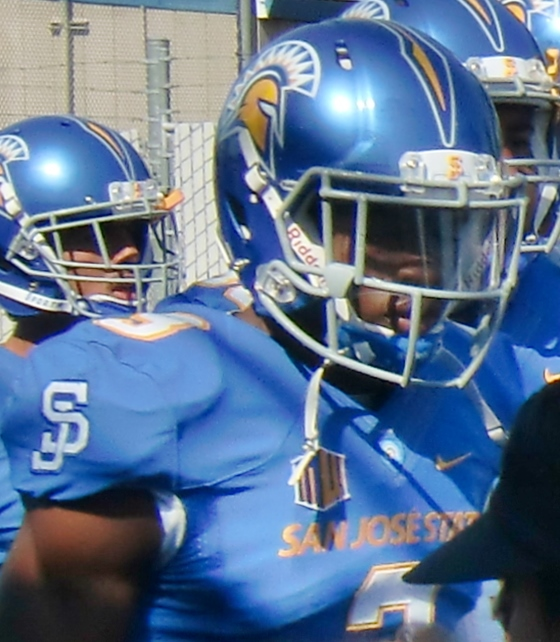 San Jose State football cornerback Jermaine Kelly during the home opener vs. Portland State in 2016.